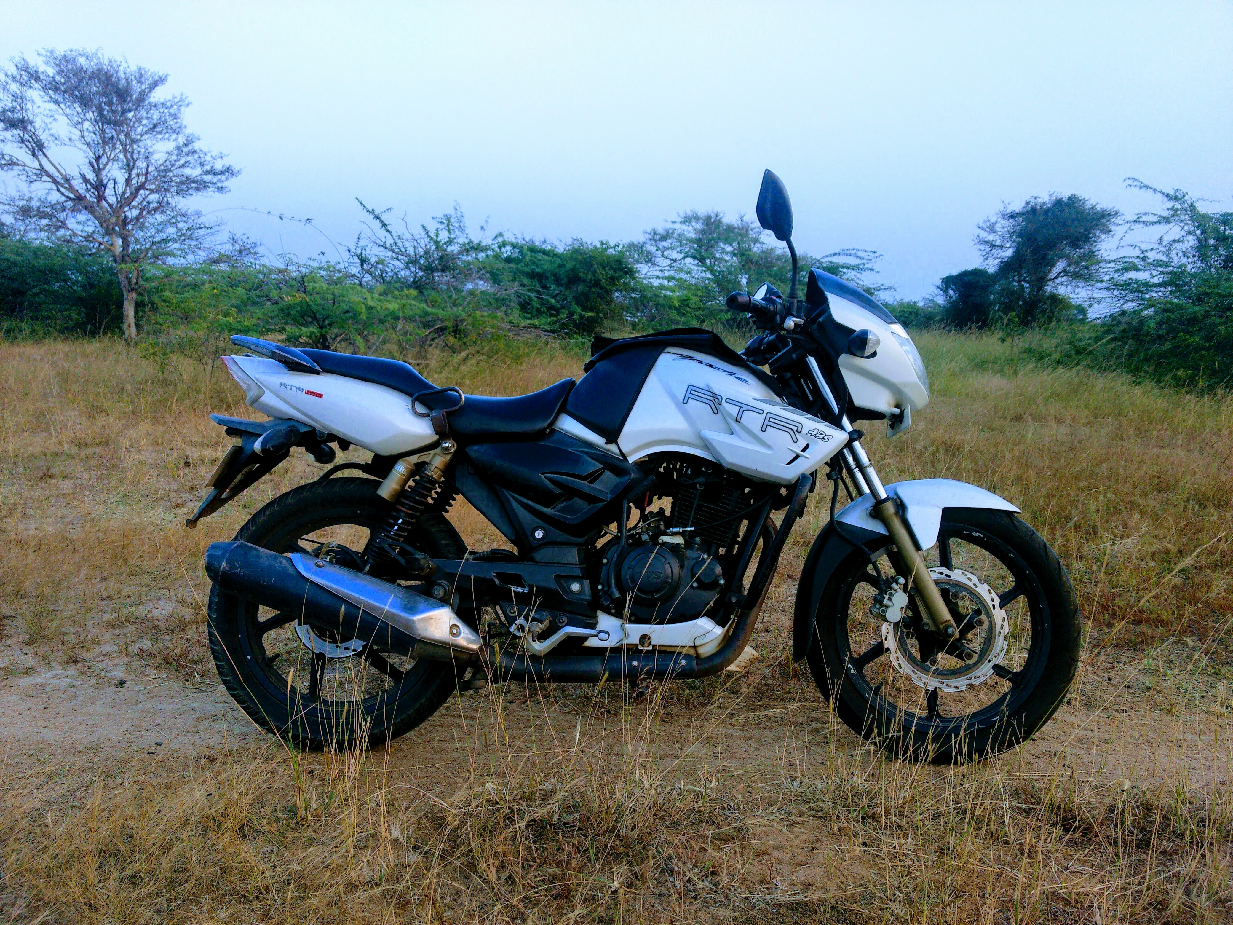 TVS Apache RTR 180 ABS Old model